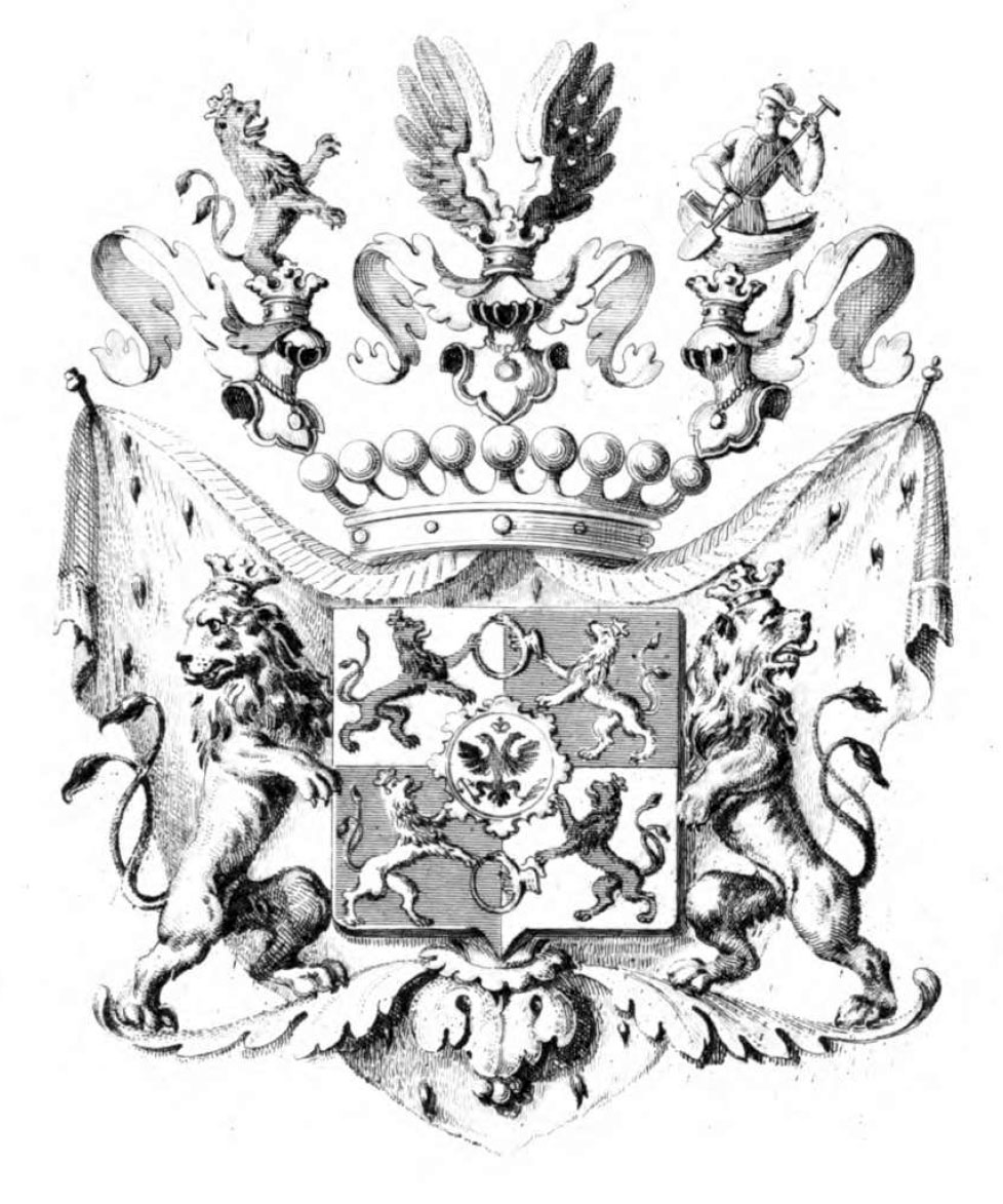 Coat of arms of counts von Waldstein